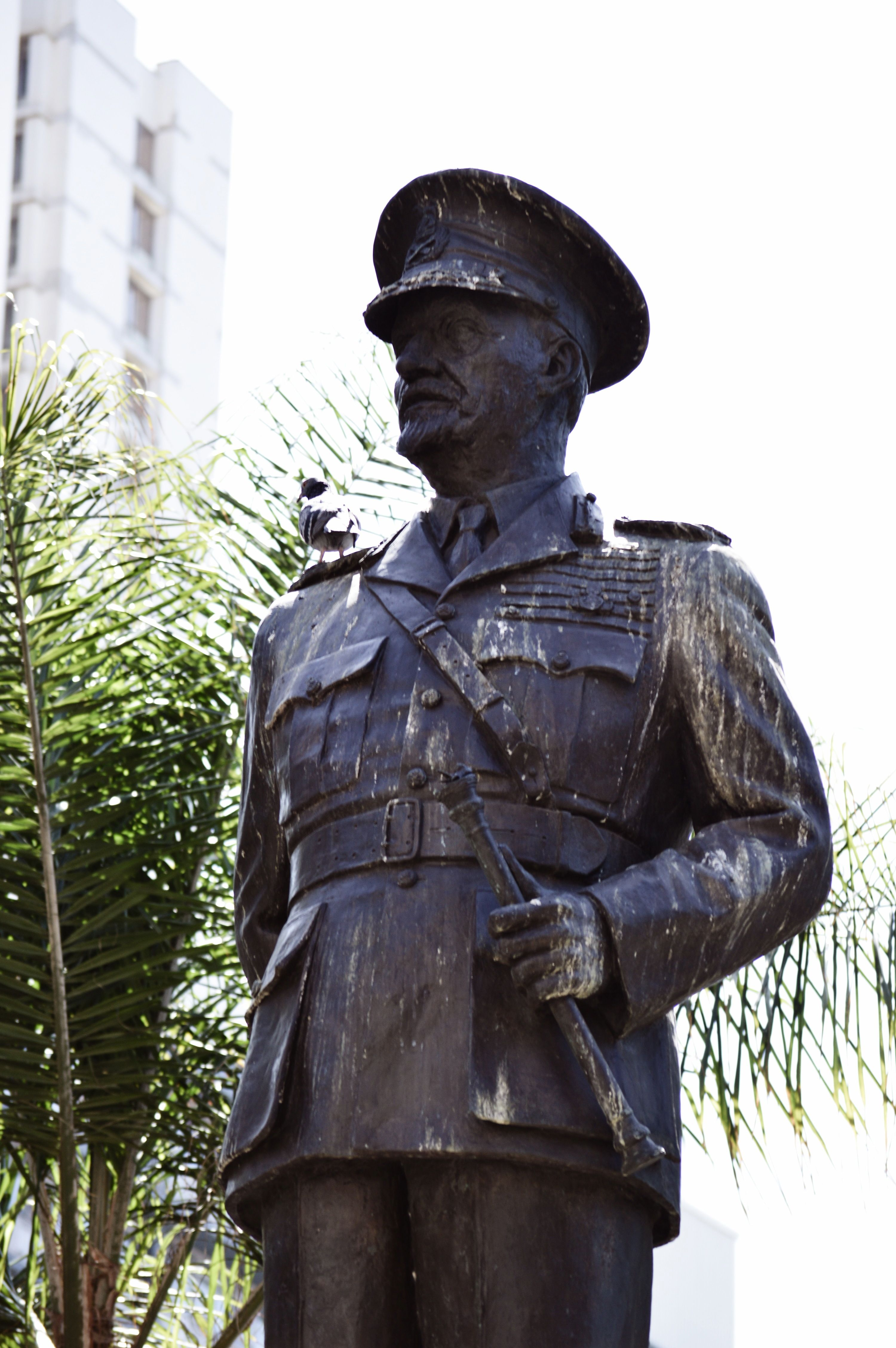 City Hall and Francis Farewell Gardens, Durban This media shows a South African Protected Site with SAHRA file reference 9/2/407/010.